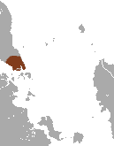 Range for Raffles' Banded Langur in Singapore and Johor, Malaysia